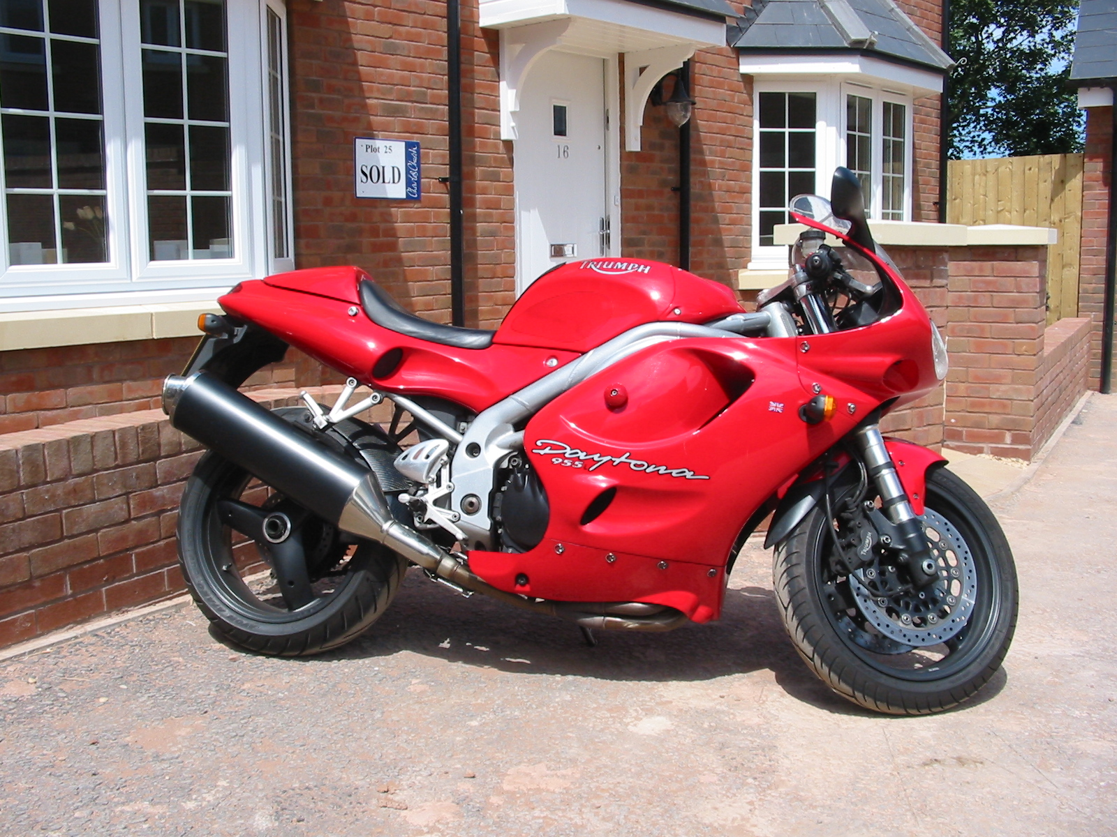 Updated model of Daytona T595